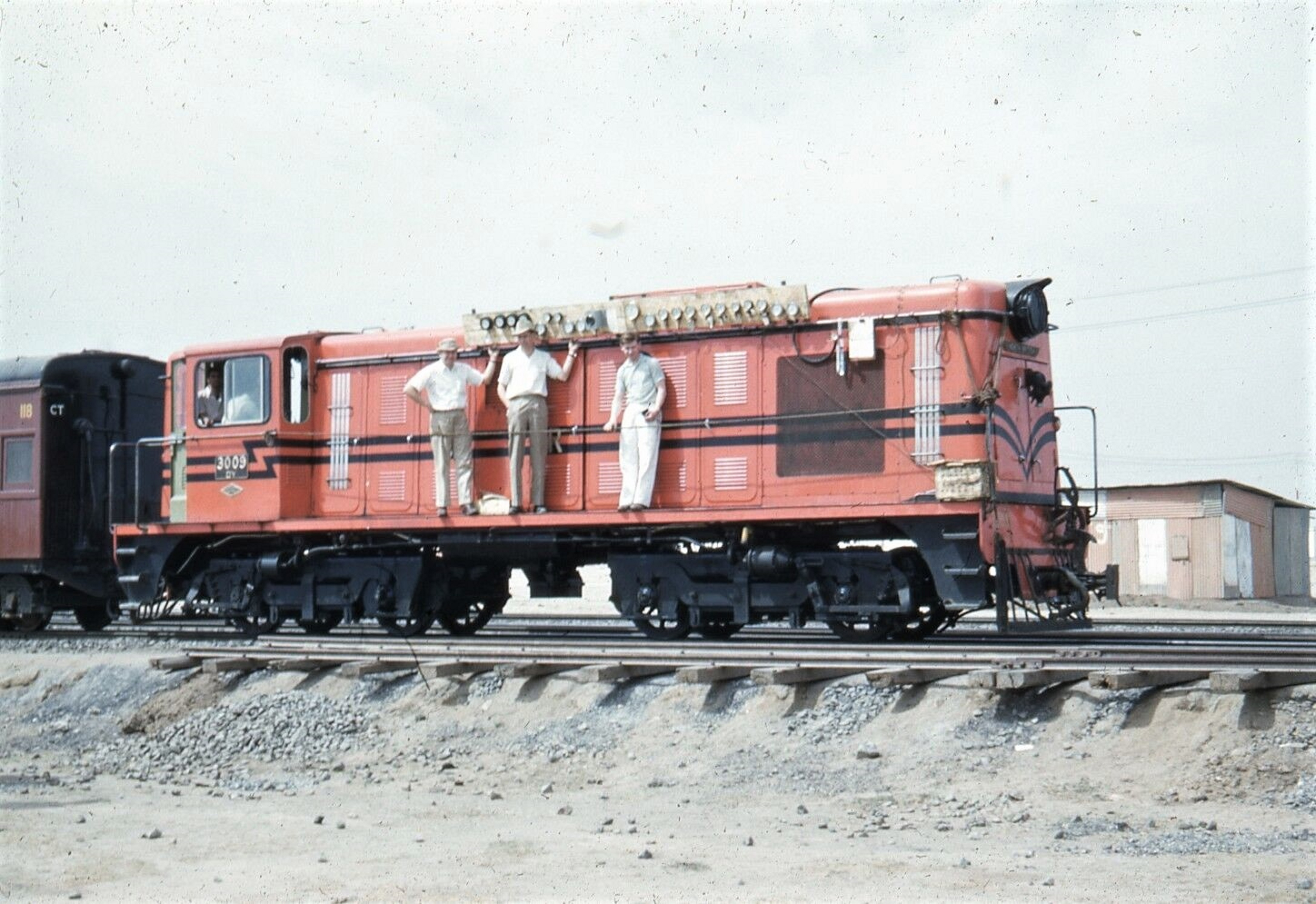 metre gauge Paxman powered YDM-1 class diesel-hydraulic built by North British, on test at Gandhidham, 1956